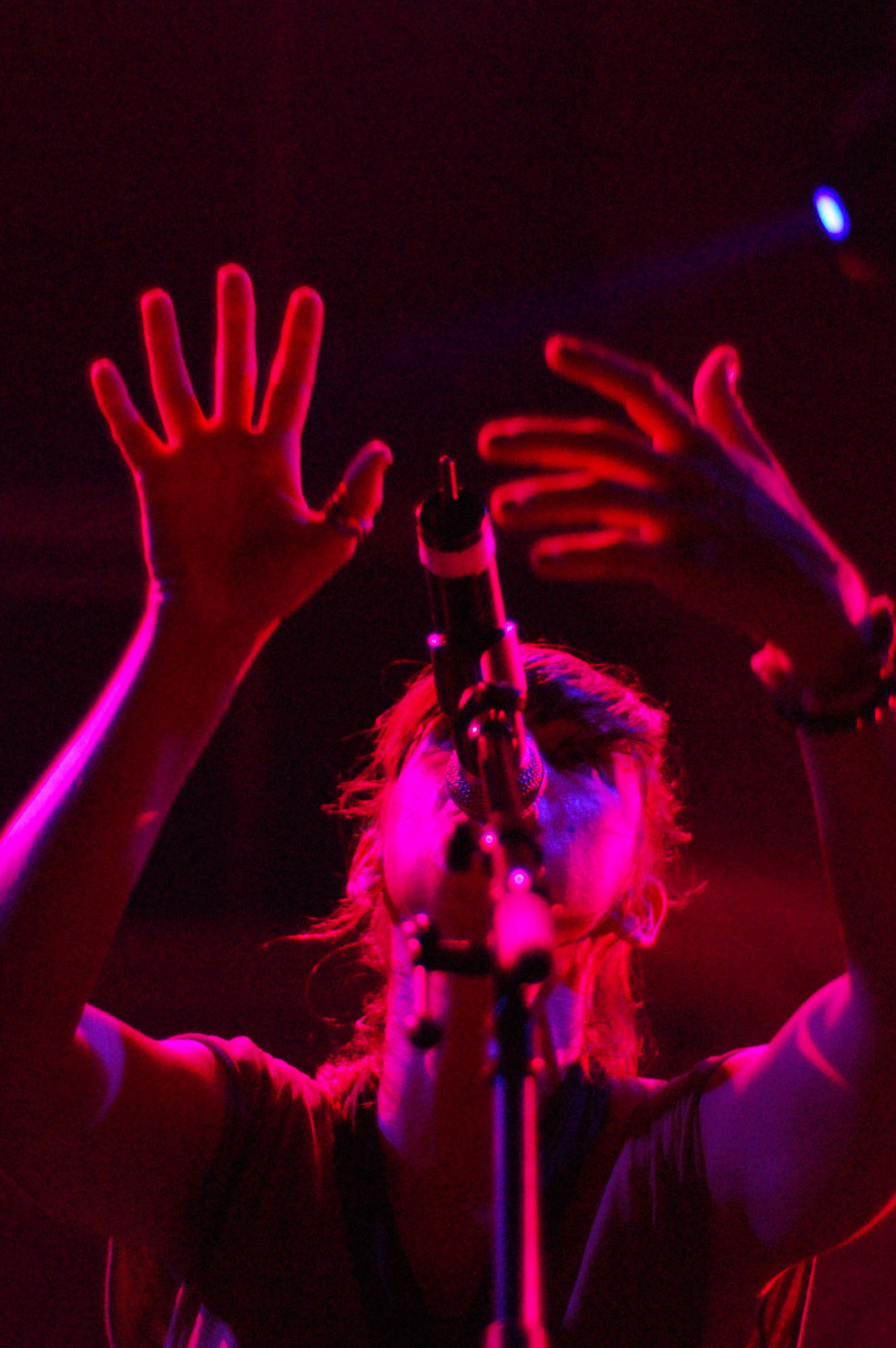 Cat Power performing in June 2008.